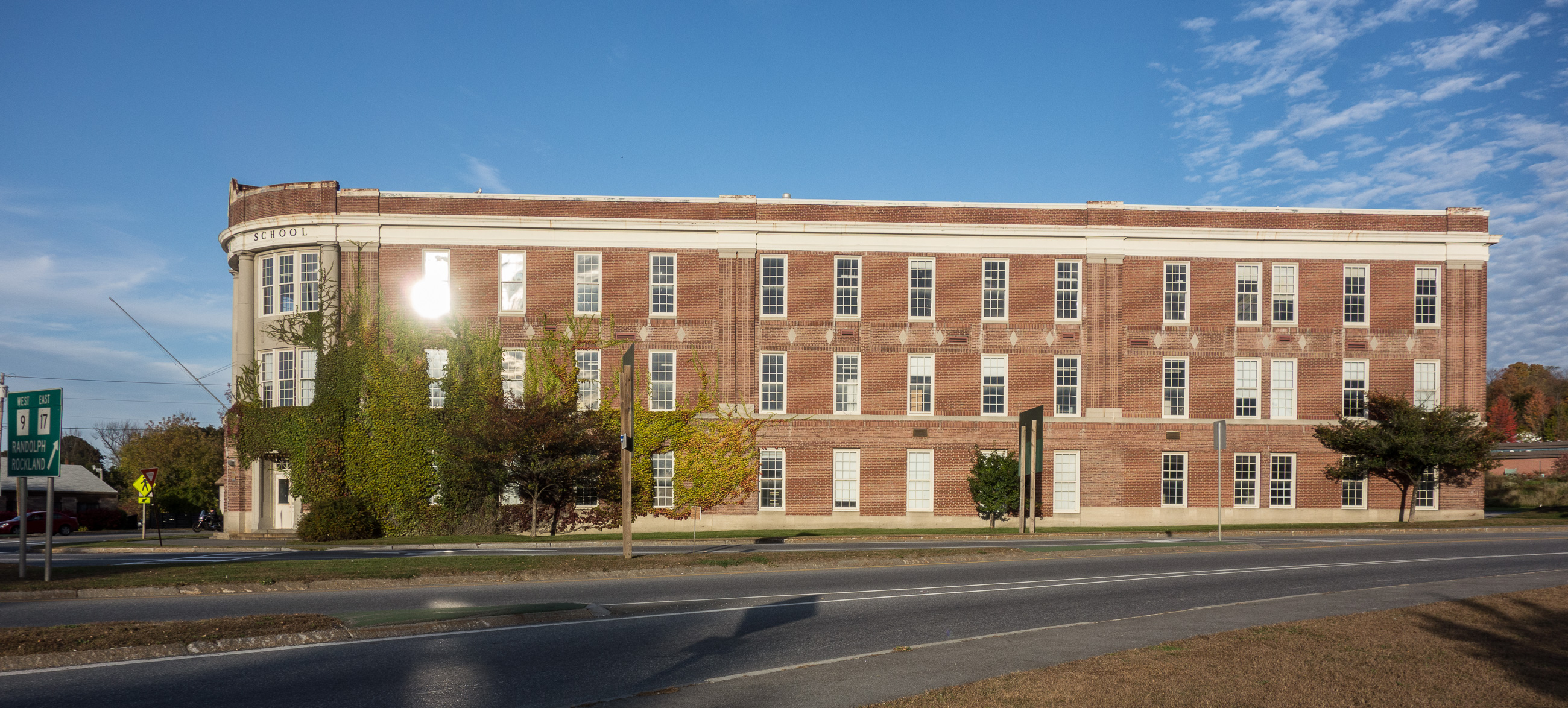 Old Cony High School viewed from SW. Augusta, Maine